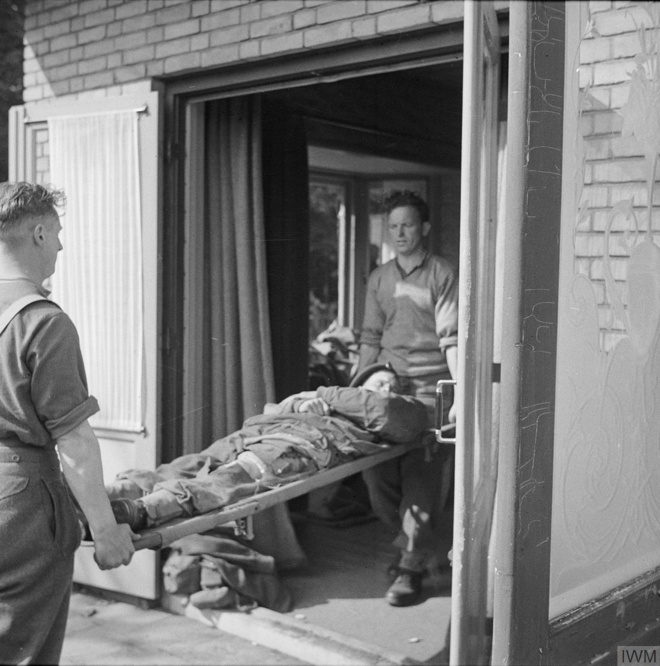 Arnhem 17 - 25 September 1944: A wounded paratrooper of 1st Airborne Division being taken into the front line dressing station, Arnhem.